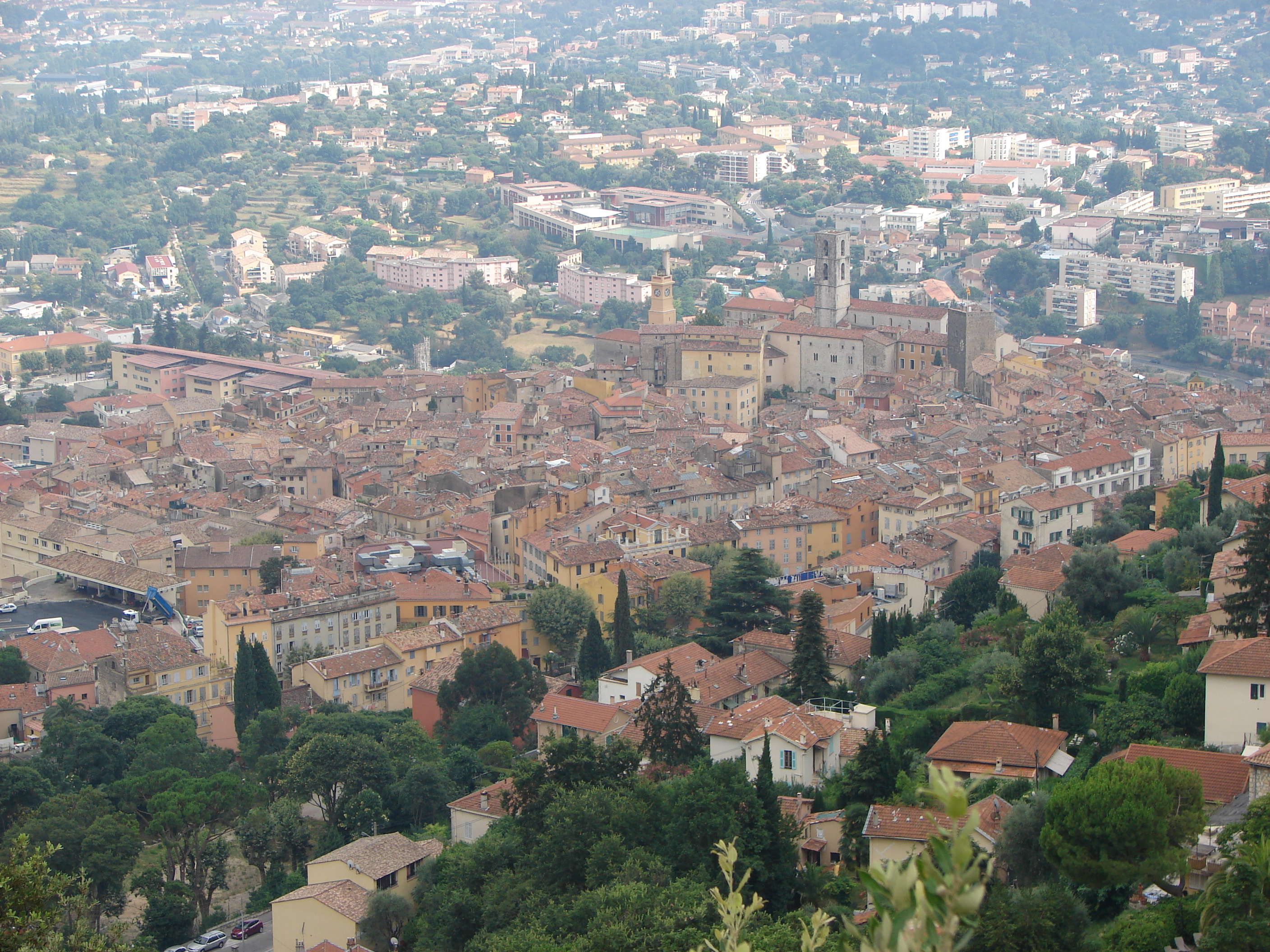 View of Grasse (France)